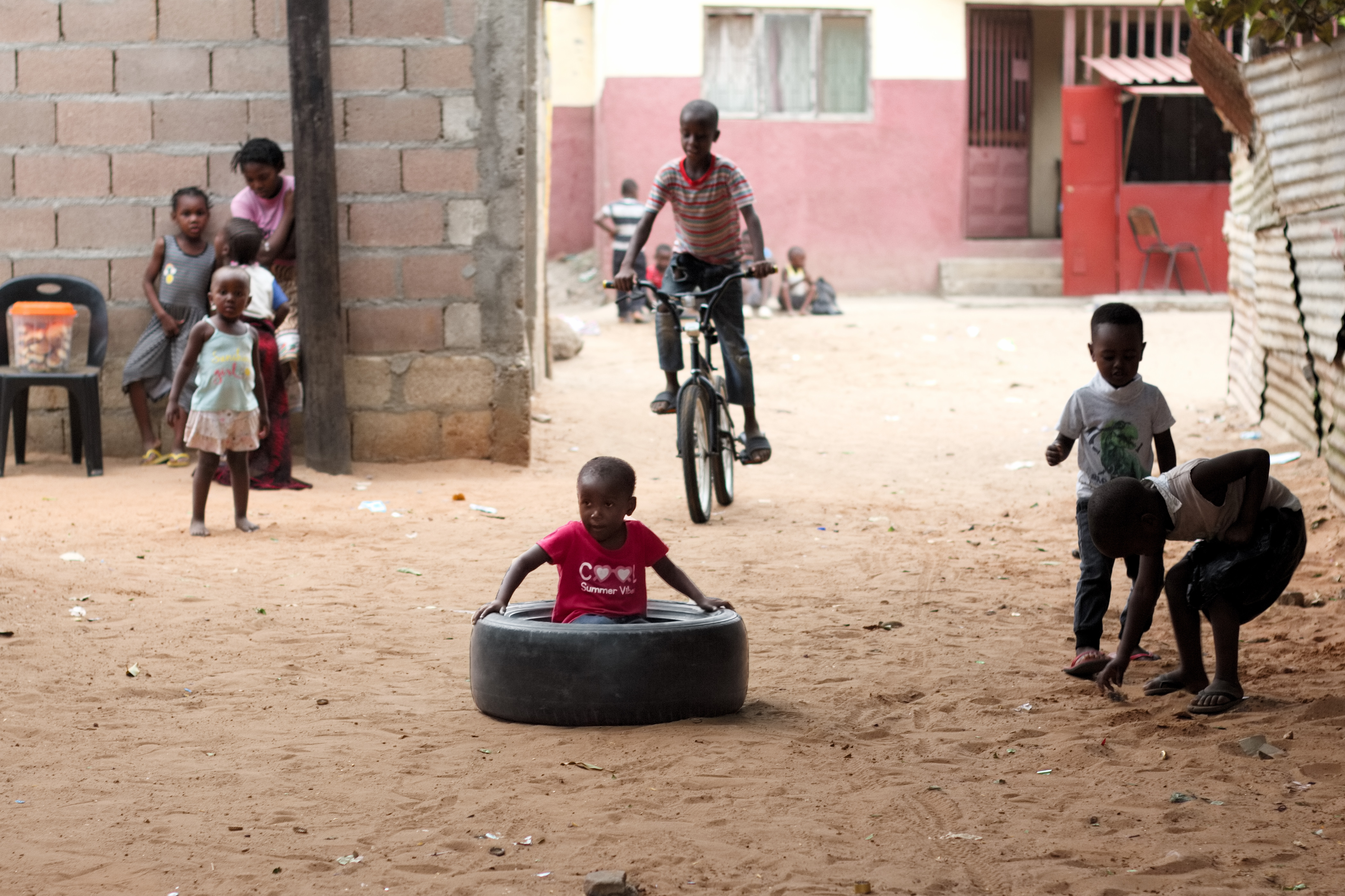 This is an image with the theme "Play" from: Mozambique